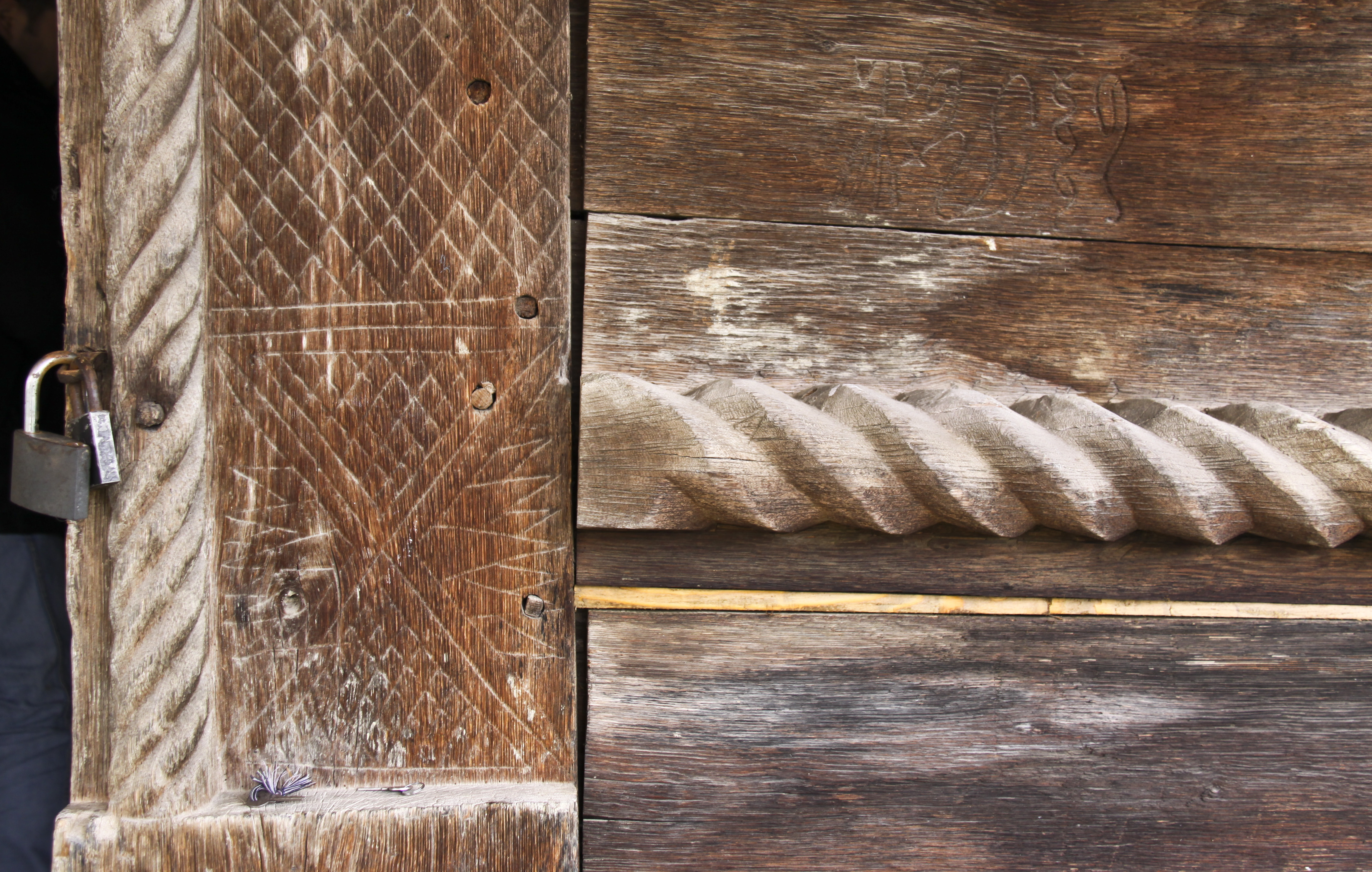 Cârstieni, Argeş county, Romania: the wooden church.